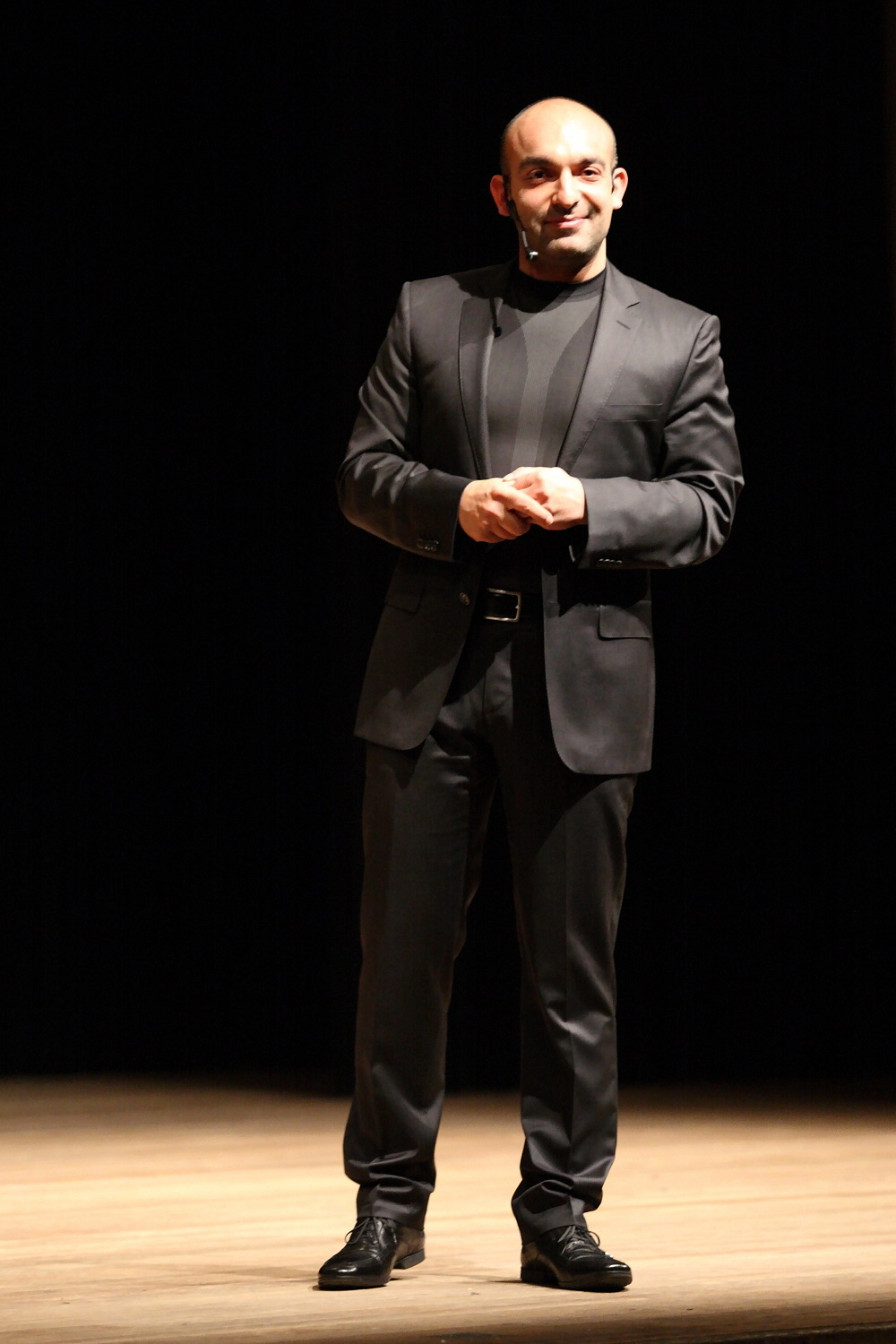 German Comedian Django Asül at his Show "Fragil" in Radolfzell, Germany.